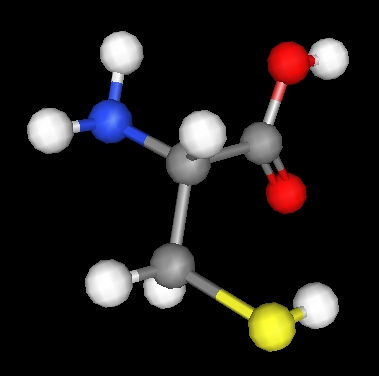 Cysteine-Ball and stick 3D molecular graphic created by program Ghemical